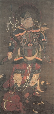 Bishamonten, Uesugi Jinja, Yonezawa, Yamagata, Japan